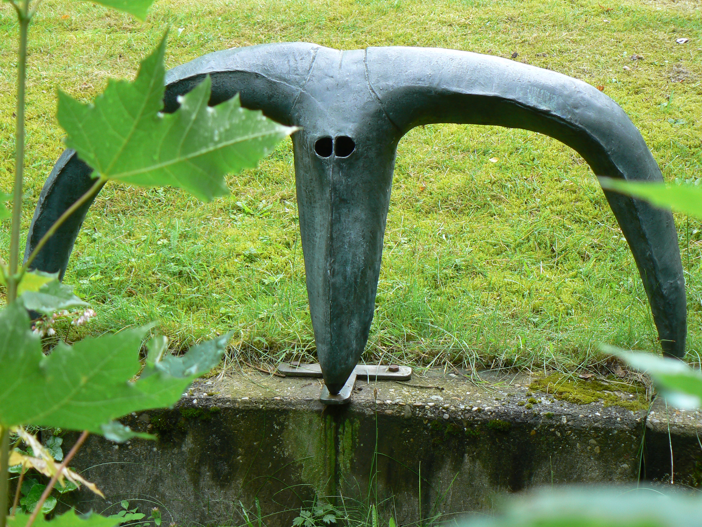 Collection: Skulpturenmuseum Glaskasten Location: City Center Marl/Germany Sculpture: Großer gehörnter Tierschädel (1977/9) Sculptor: Lothar Fischer